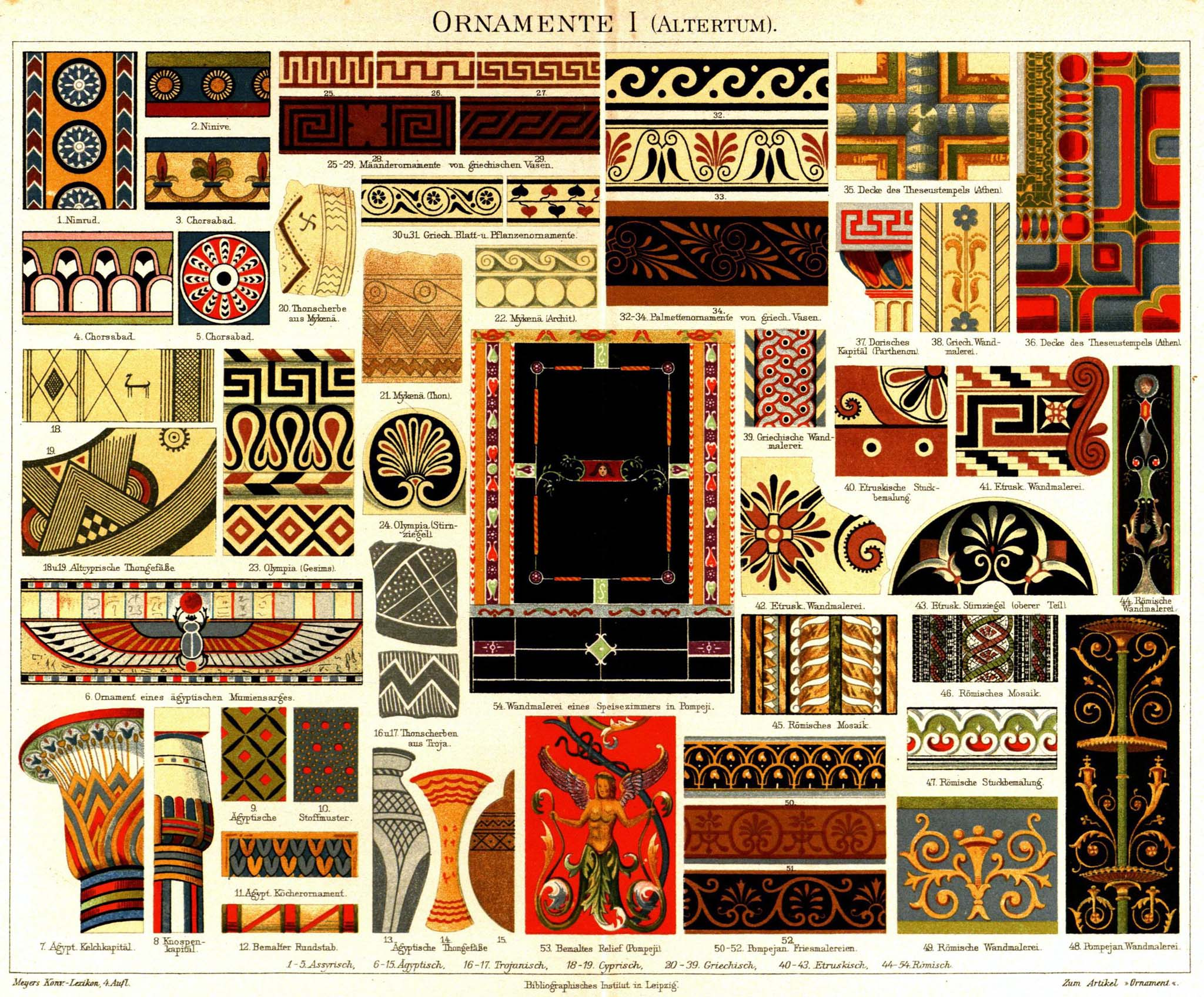 This is page 450a, as numbered of 1028, in Volume 12 of the German illustrated encyclopedia Meyers Konversationslexikon, 4th edition (1885-1890), fraktur font, title "Ornaments I (Antiquity)" showing 54 types of ornaments (ornamental designs) c. 1888.